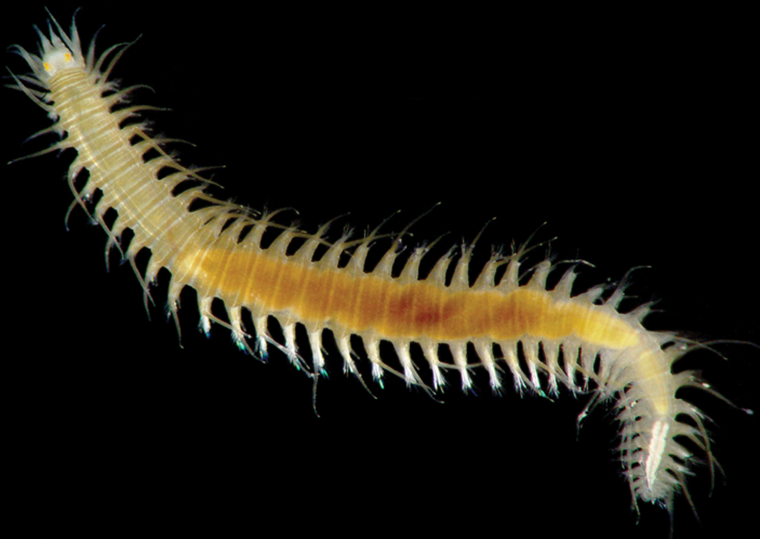 Habitus of Oxydromus pugettensis (Polychaeta: Hesionidae).